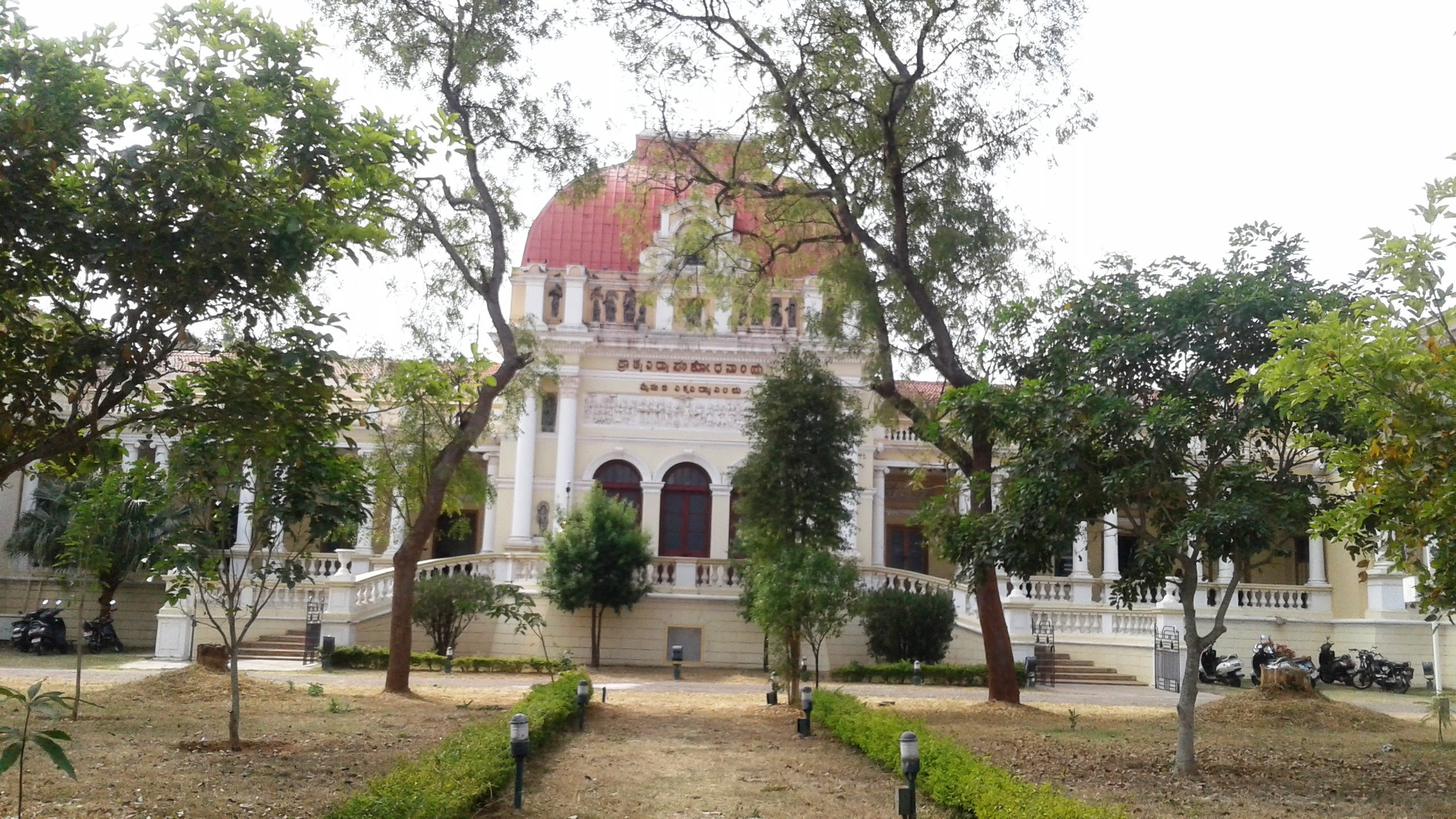 Karnataka state, India.